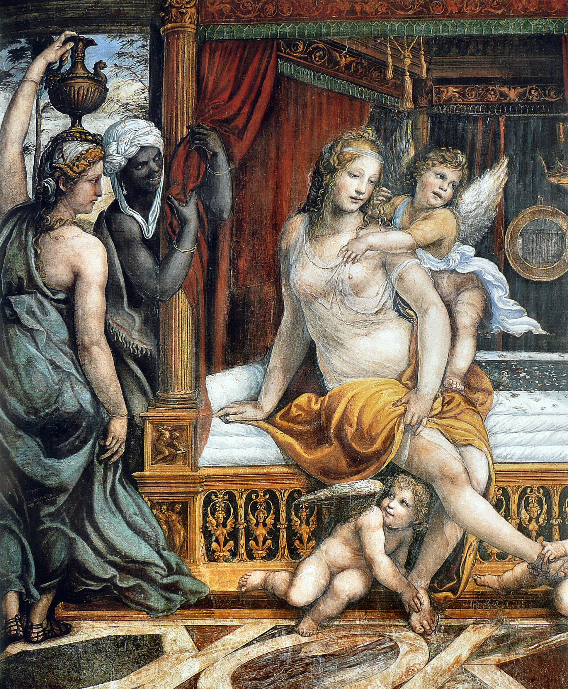 Roxane receives the crown from her husbandlabel QS:Len,"Roxane receives the crown from her husband" label QS:Lfr,"Roxane recevant la couronne de son époux"